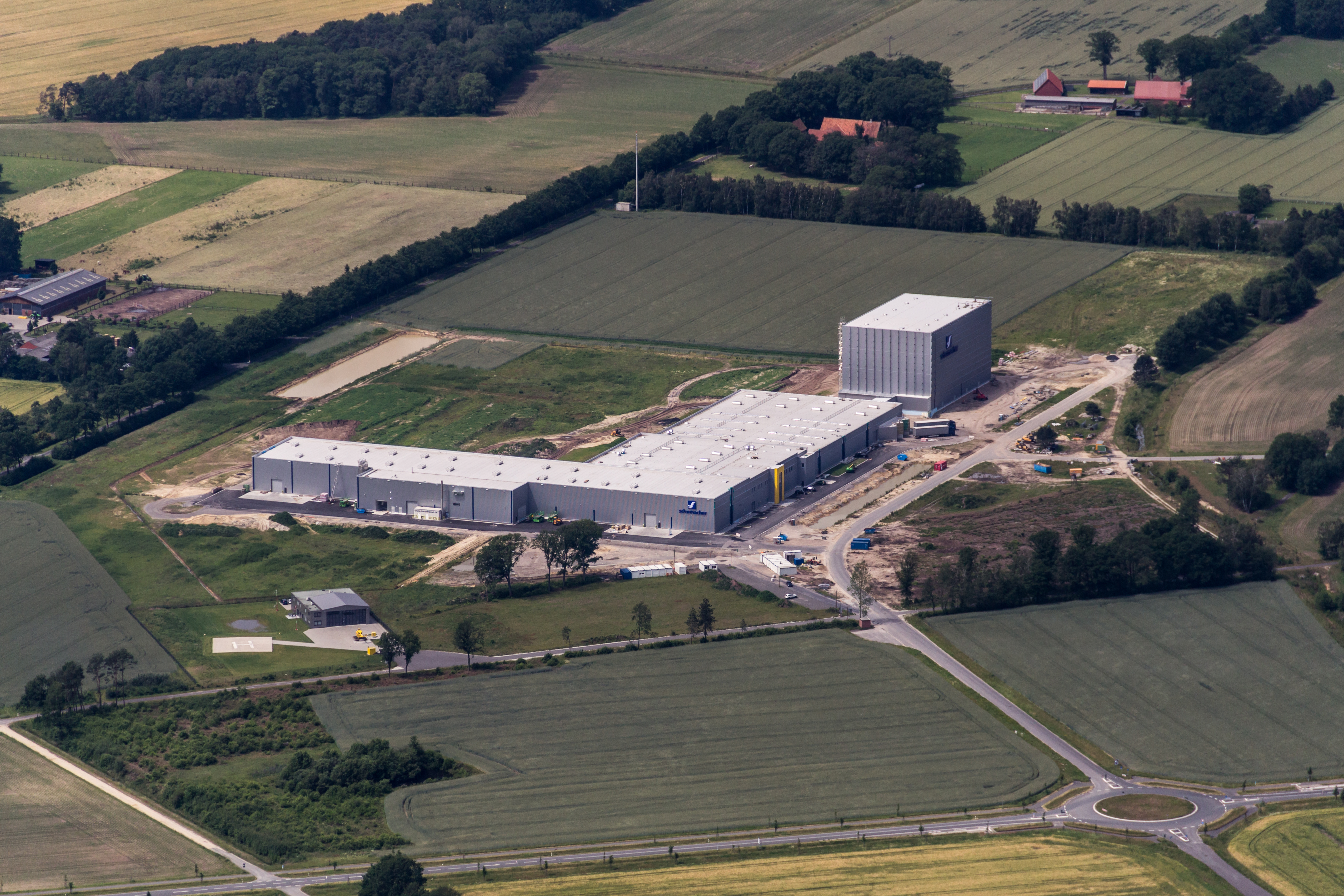 Commercial building at airport Münster-Osnabrück, Greven, North Rhine-Westphalia, Germany